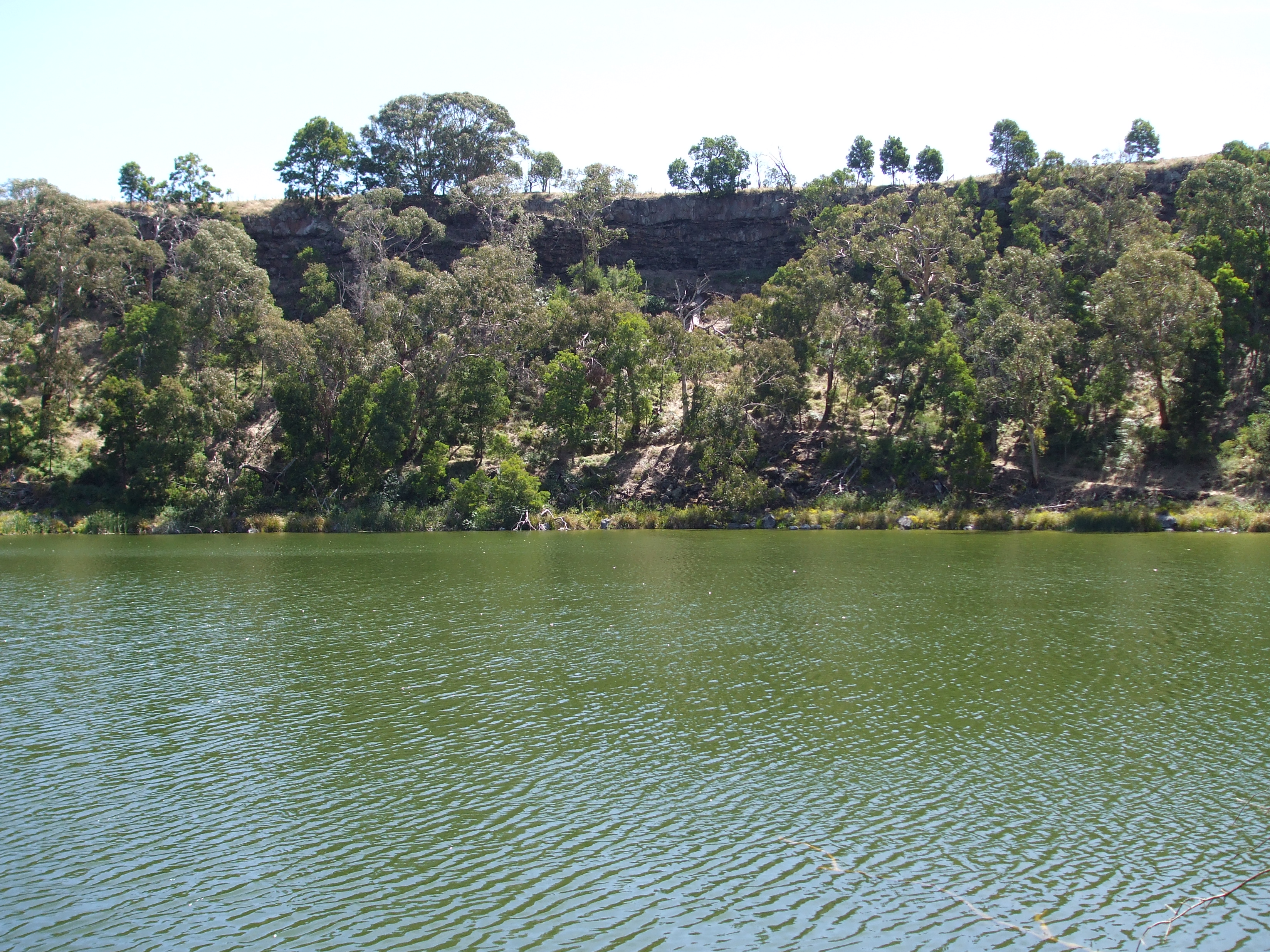 Lake Surprise, Budj Bim ‐ Mt Eccles National Park, Victoria, Australia